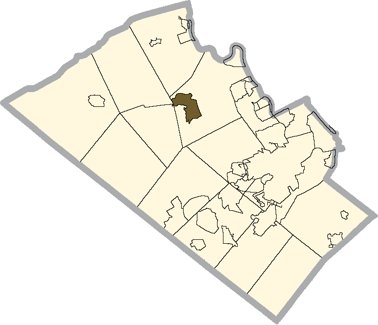 Schnecksville shaded on the Lehigh county map.